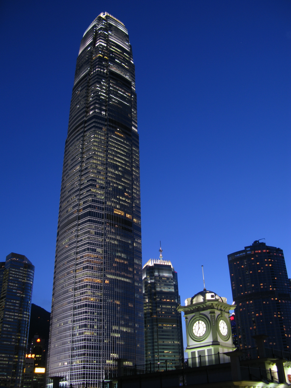 2ifc at twilight